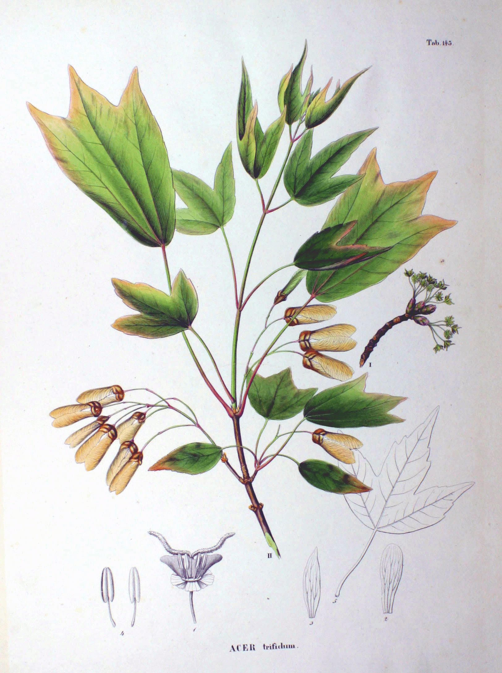 Acer buergerianum (syn. A. trifidum). Plate from book